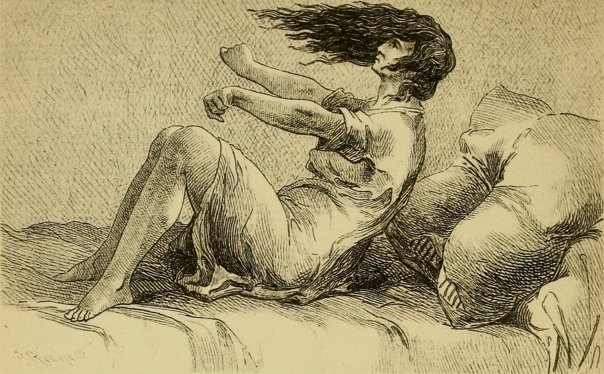 Title: Hysteria and certain allied conditions, their nature and treatment, with special reference to the application of the rest cure, massage, electrotherapy, hypnotism, etc Year: 1897 (1890s) Authors: Preston, George J. (George Junkin), b. 1858 Subjects: Hysteria Hysteria Publisher: Philadelphia, P. Blakiston, son & co. Text Appearing Before Image: nervous system is brought aboutboth by the stimulation of the peripheral nerves,and also by the change in the caliber of the super-ficial blood-vessels. This latter action is one ofgreat value, for in this manner the circulation isequalized and congestion in internal organs relieved.(3) The action of water in depressing the tempera-ture has been so fully discussed of late that it neednot be mentioned here. There can be no doubt, asBaruch J says, that heat and cold act as powerfulreflexes to the central nervous system. Water being used mainly to apply the principle ofheat and cold to the body, the first point to be ob-served in its application is the range of temperature.As Baruch § has said, there is a wide range in tem-perature, the extremes being, for cold 400 F. and forheat 1 io° F. Beni Barde ;; makes the rather conve-nient classification for practical use as follows: * Therap. Gazette, 1888. f Johns Hopkins Bullet., 1893. % Med. Rec, 1893. \ Loc. at. ;; Hydrotherapies Plate II. Text Appearing After Image: Fig.